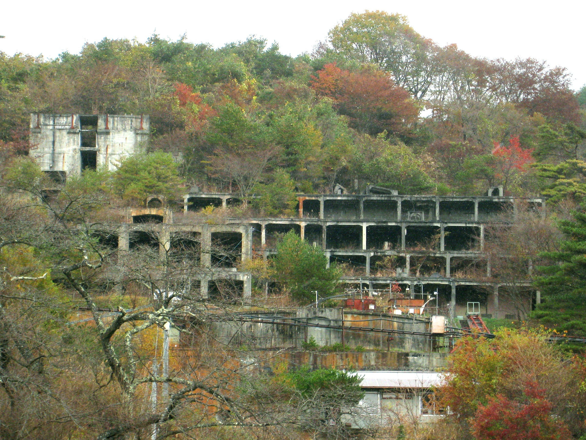 Oya Gold Mine Ruins, This Photo Taken in November 20, 2008